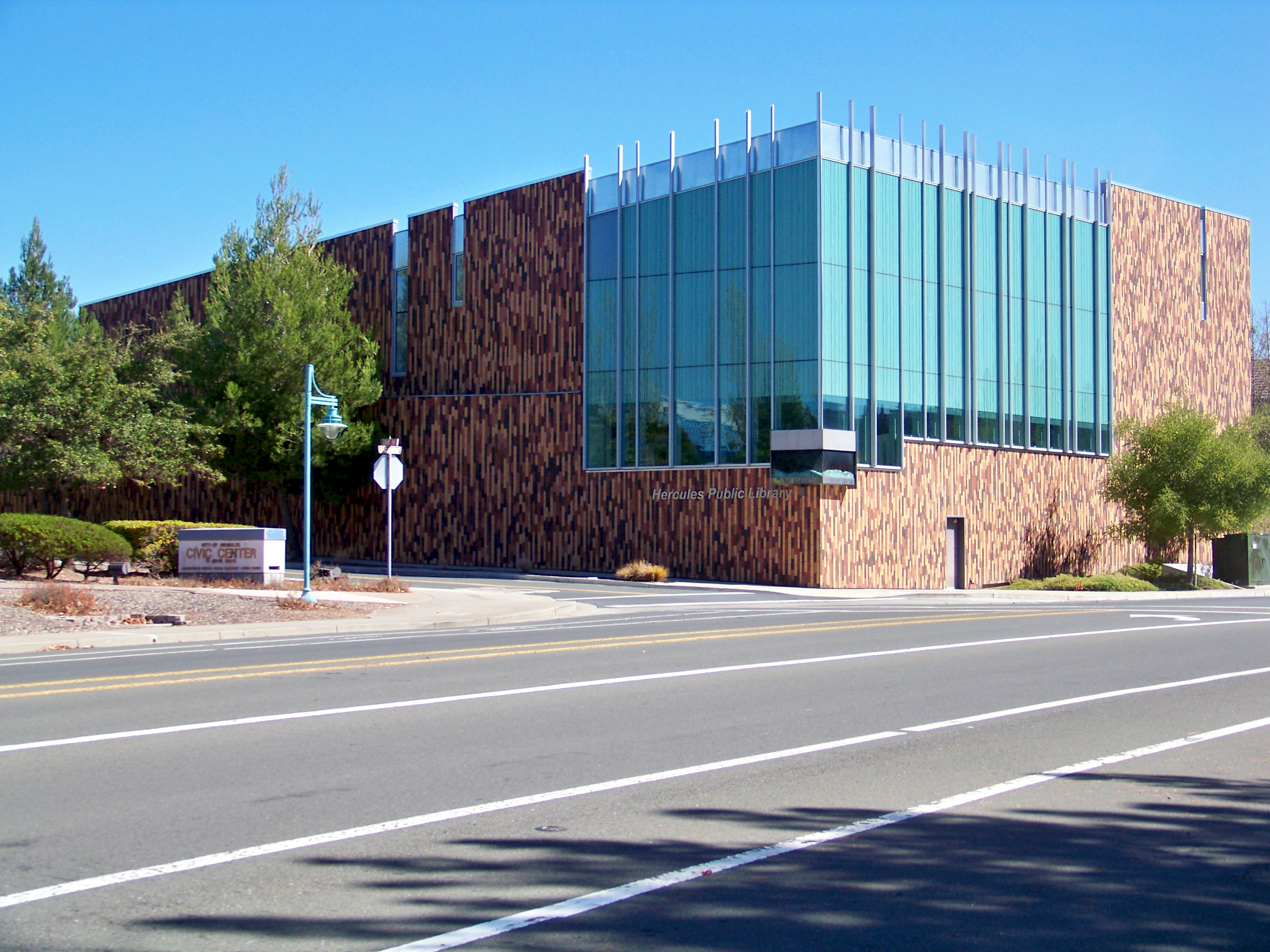 Hercules Public Library. Part of the Contra Costa County Library system